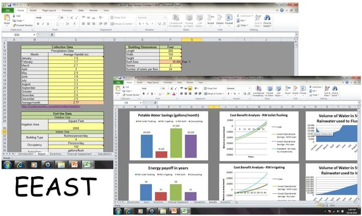 EEAST figure - lca of rainwater harvesting systems